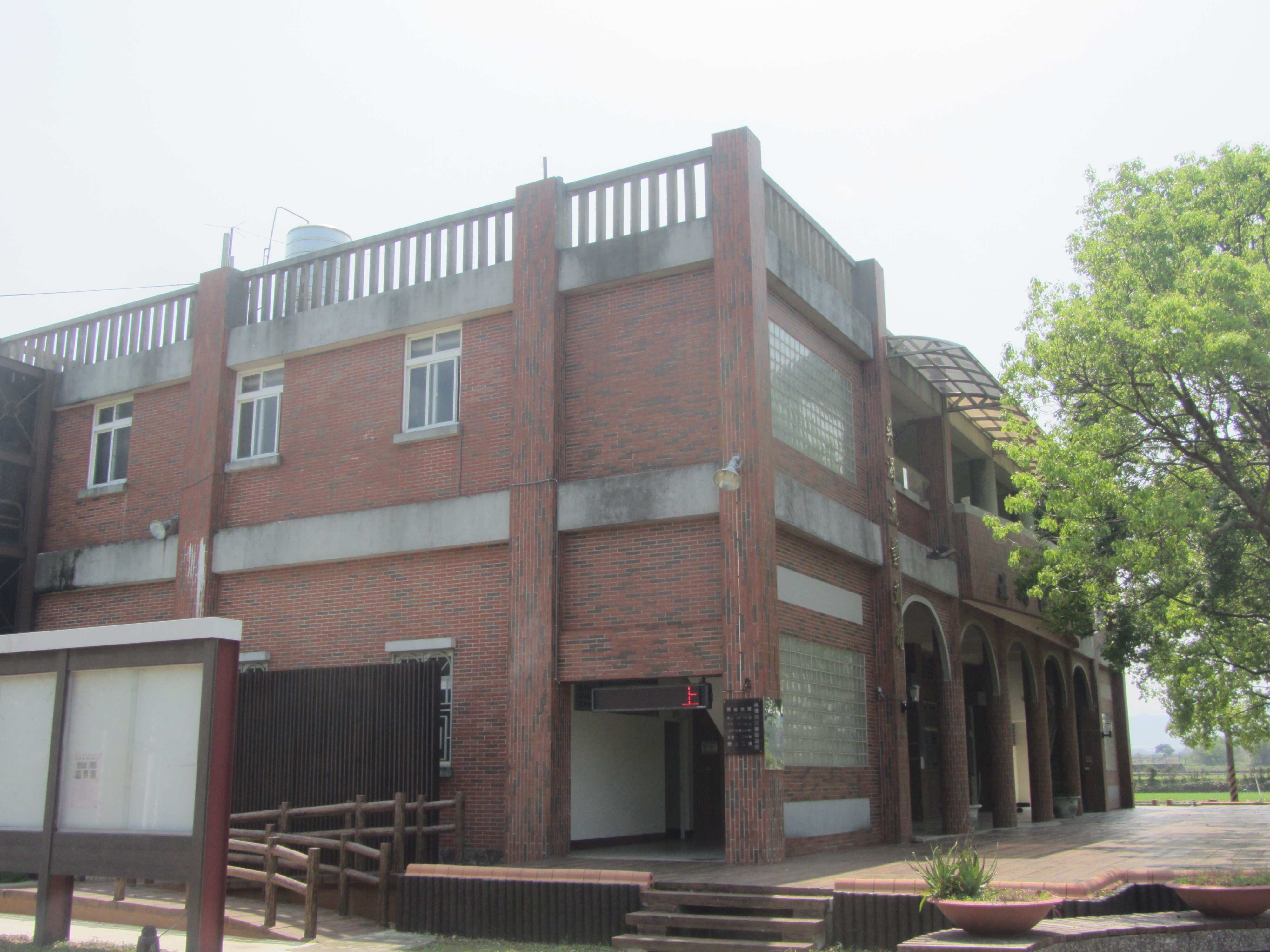 Wu Zhuo-liou Art and Cultural Center